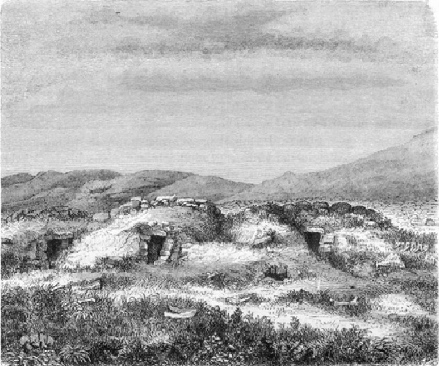 Inuit huts on Sabine Island, Greenland